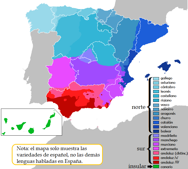 Dialects and languages in Spain.